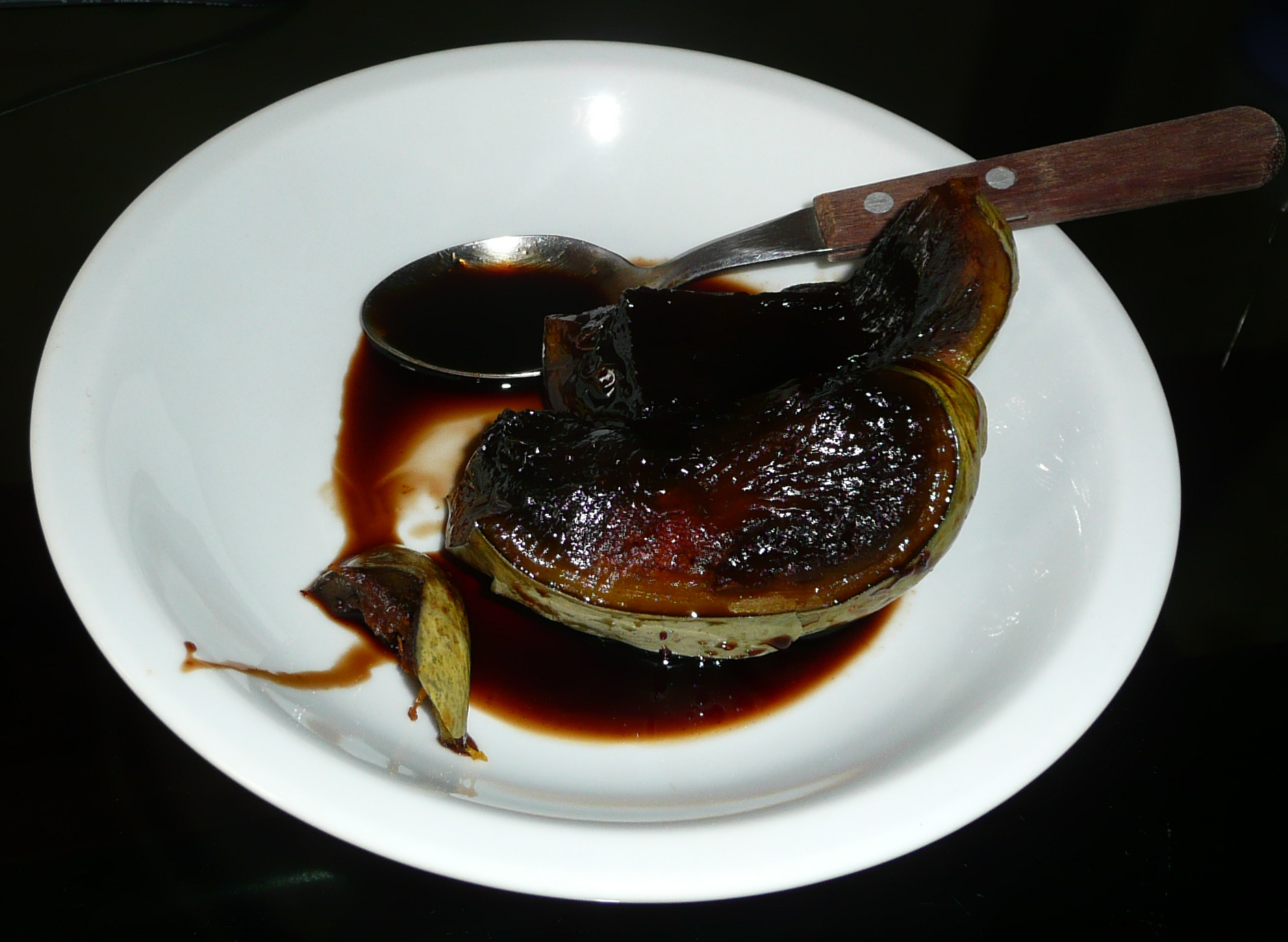 Cucurbita maxima Zapallo Plomo semillería Costanzi - 2014 05 01 - squash G "calabaza en tacha"